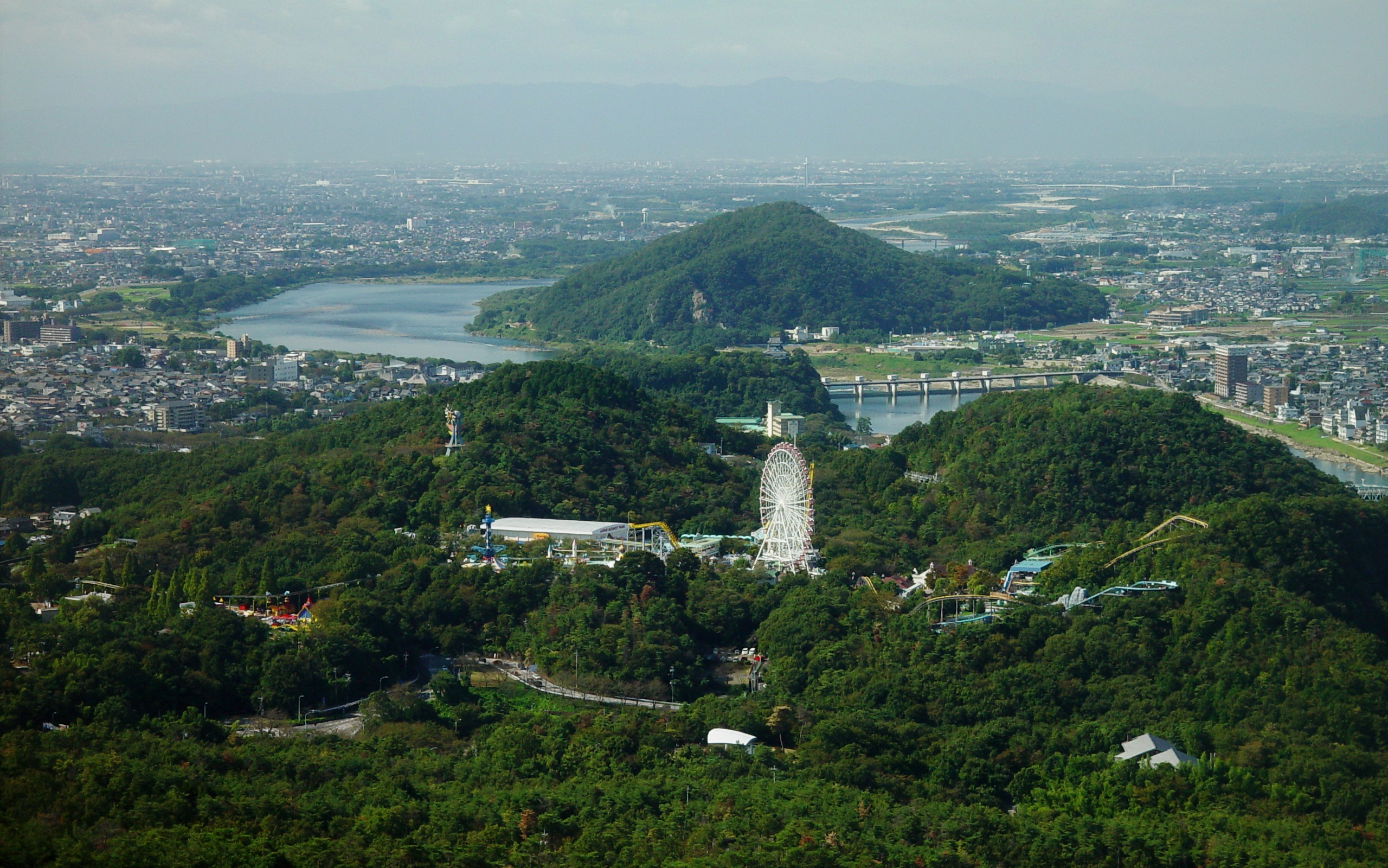 Japan Monkey Park and Kiso River from Mount Tsugao